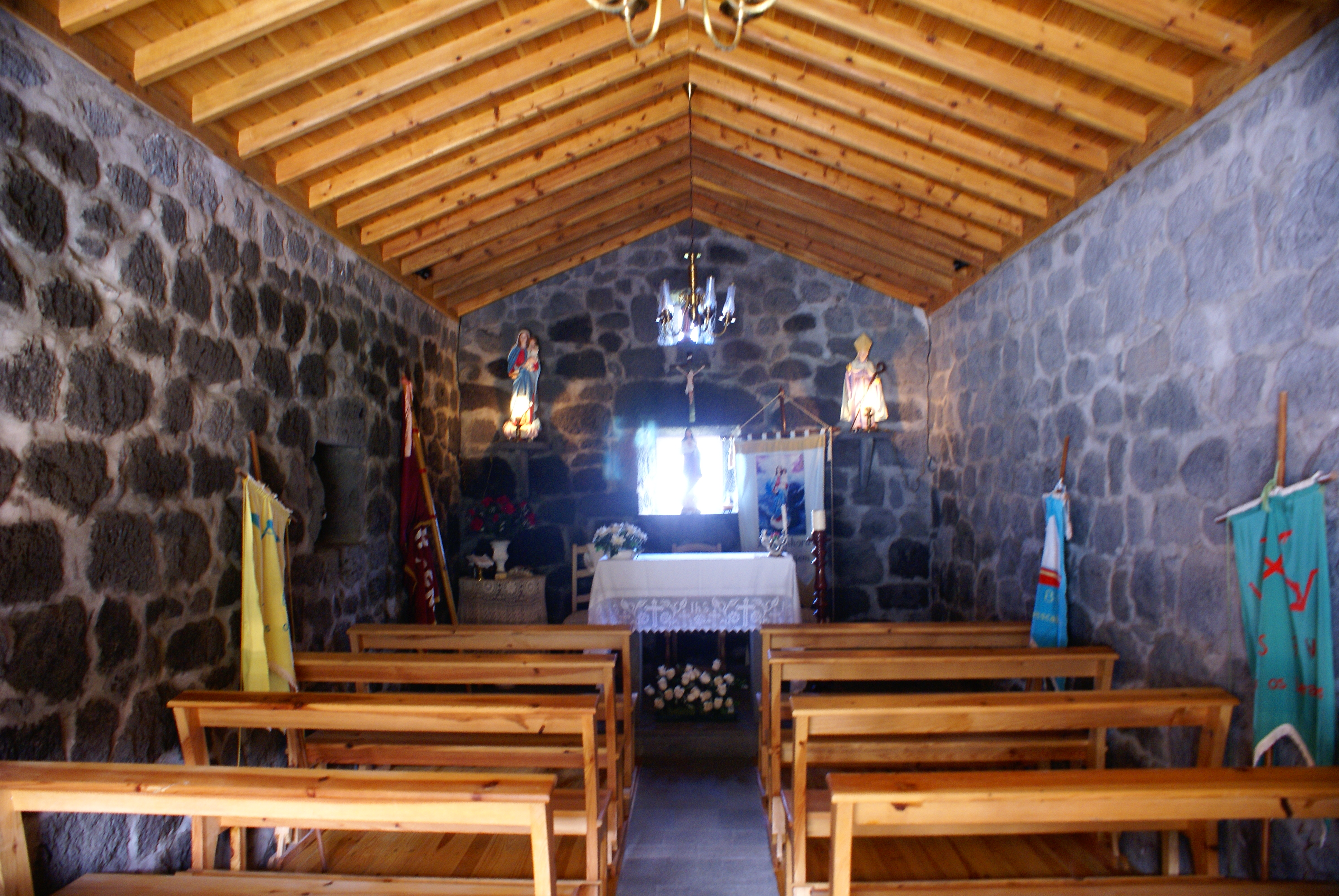 Interior of the Chapel of Nossa Senhora da Boa Viagem, Calhau, Piedade, Lajes do Pico, Pico (Azores), Portugal